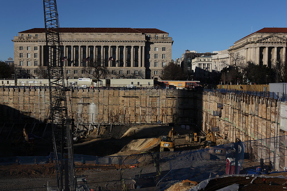 Construction site of National Museum of African American History and Culture, United States Department of Commerce on the background